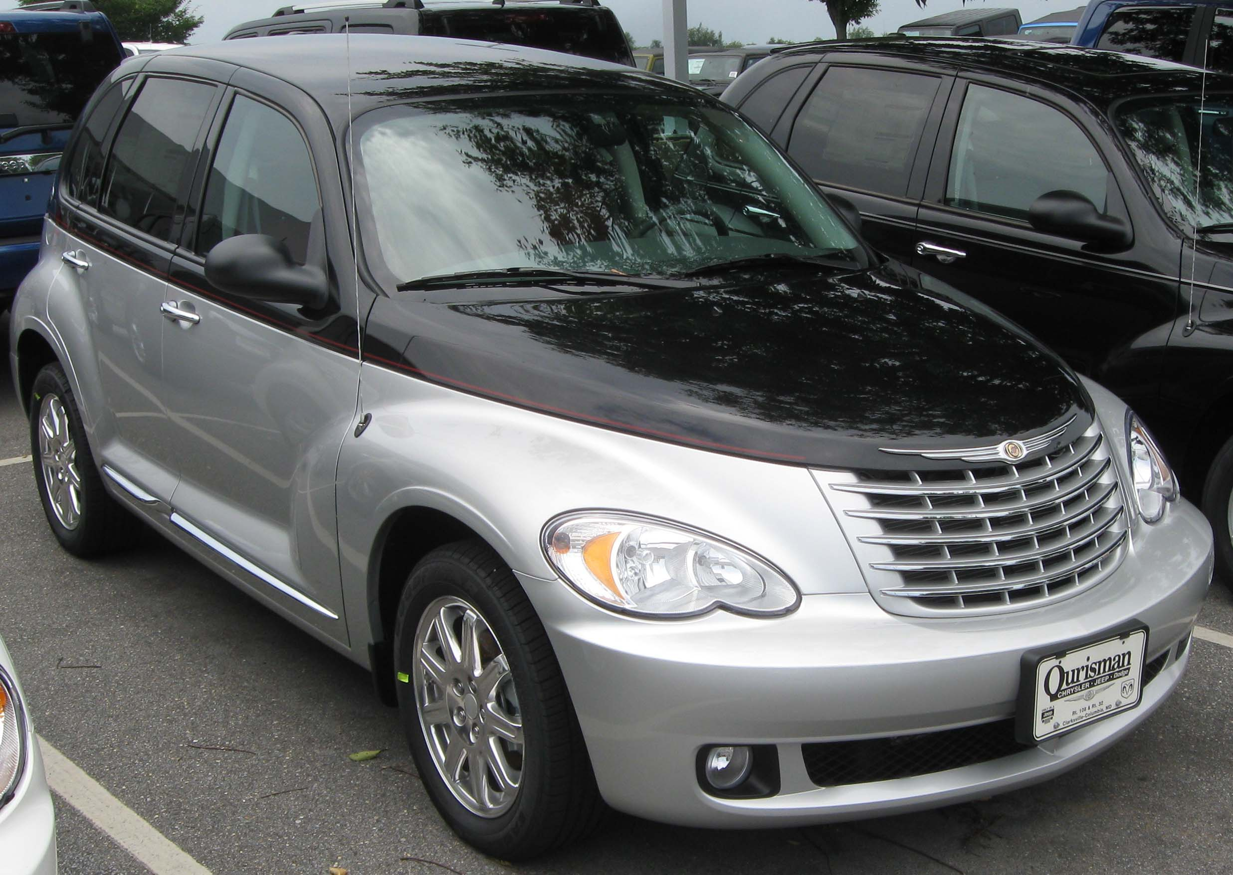 2010 Chrysler PT Cruiser photographed in Clarksville, Maryland, USA.